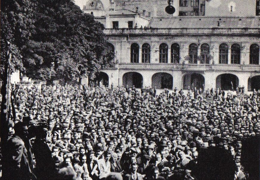 Manifestation of "Centrolew" in Dolina Szwajcarska, Warsaw, 15 September 1930. Widely published, mainly in Światowid.